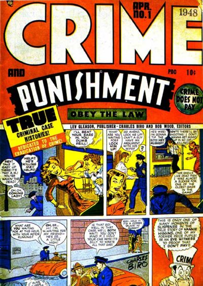 The cover of Crime and Punishment #1, art by Charles Biro, April 1948.